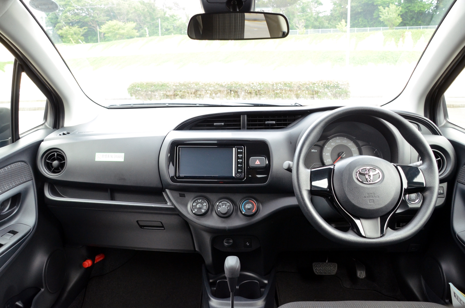 Toyota Vitz 1.0F